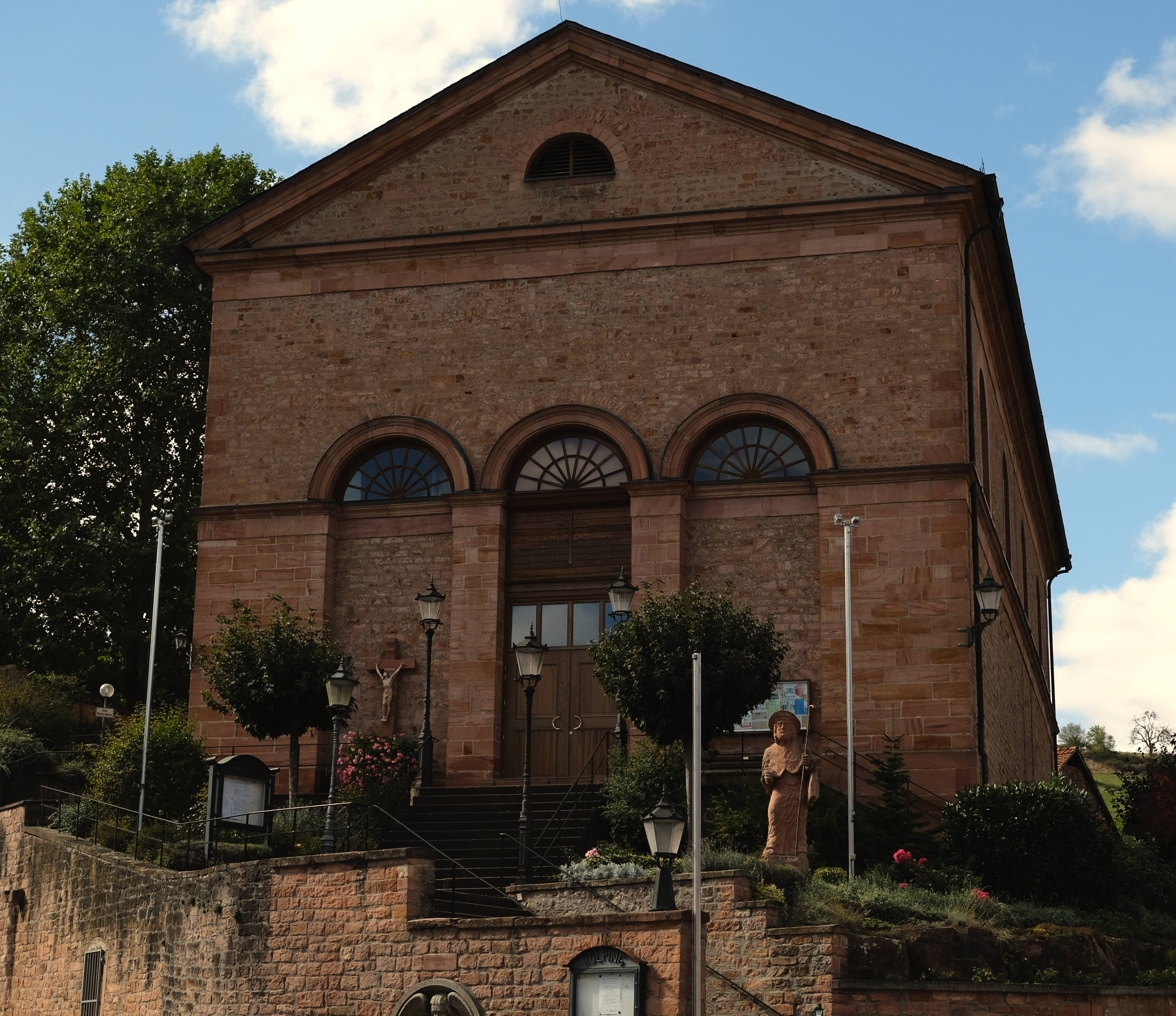 Church of St.-Jakobus-Kirche in Leidersbach, Bavaria